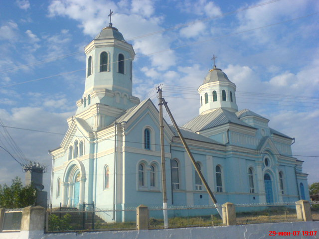 A church in Kotlovyna village; Reniyskyi Raion, Odessa Oblast, Ukraine